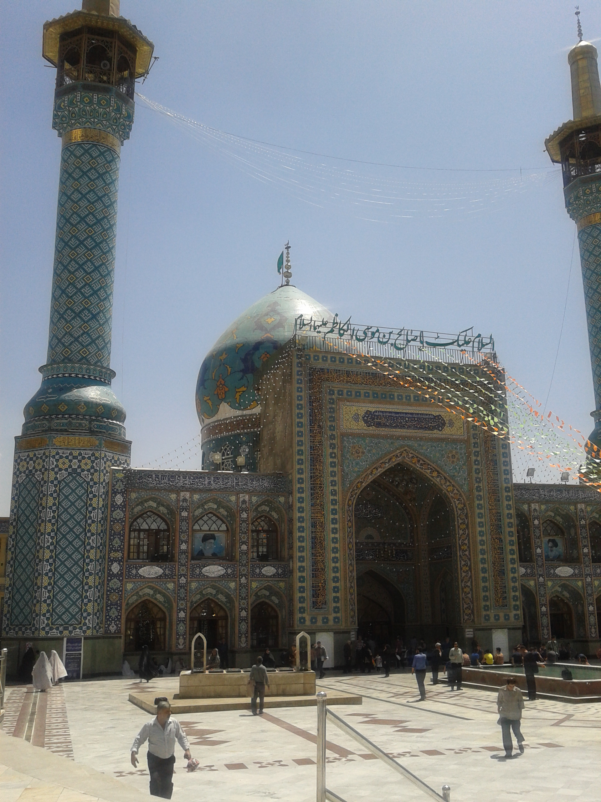 Imamzadeh Saleh, Shemiran